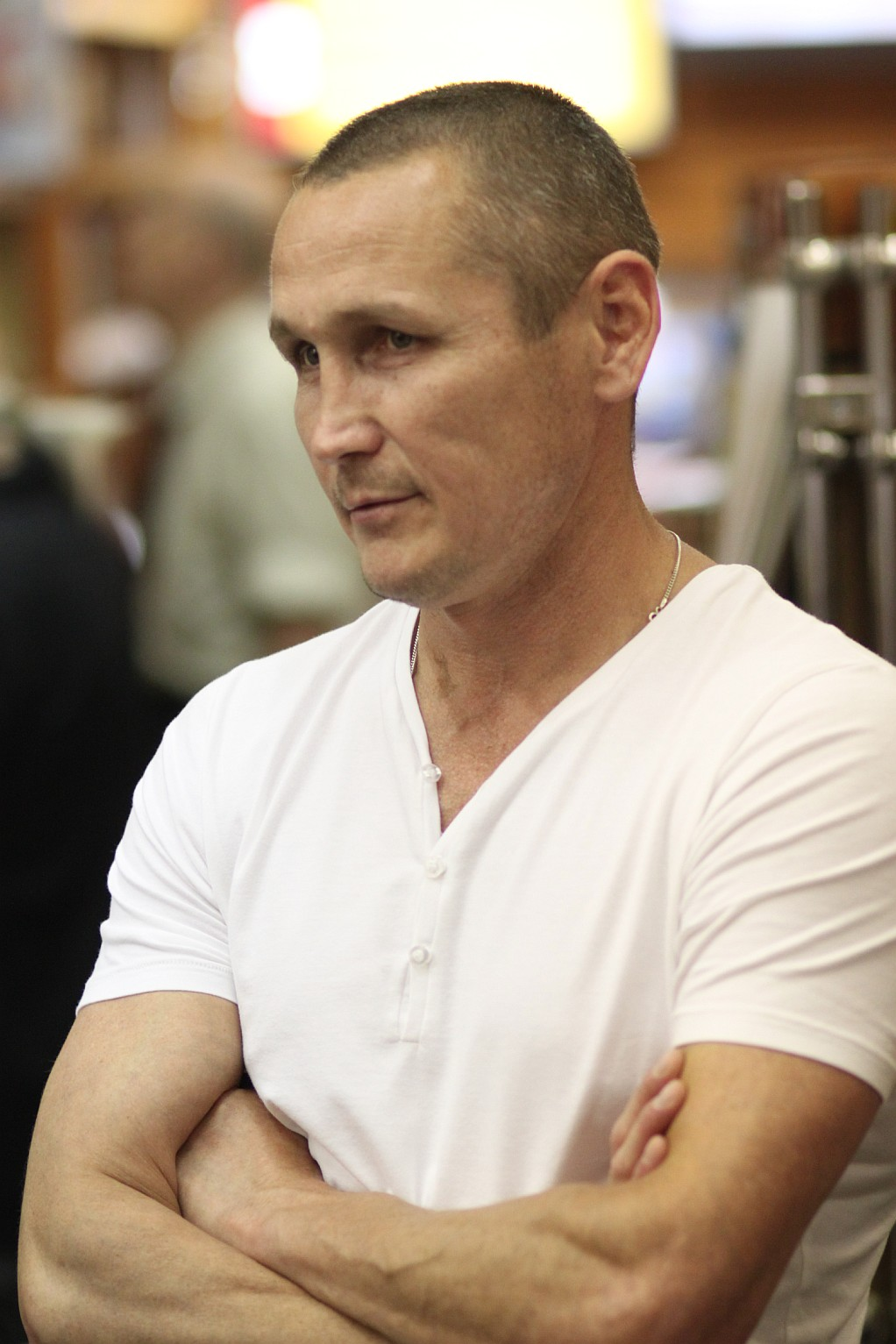 Russian boxer Anatoly Aleksandrov